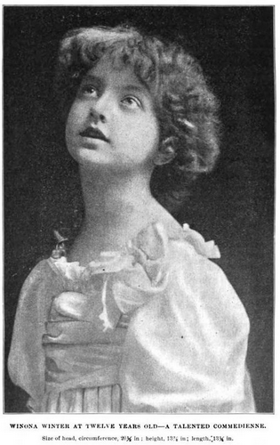 Winona Winter as a child, from a 1901 phrenological journal.